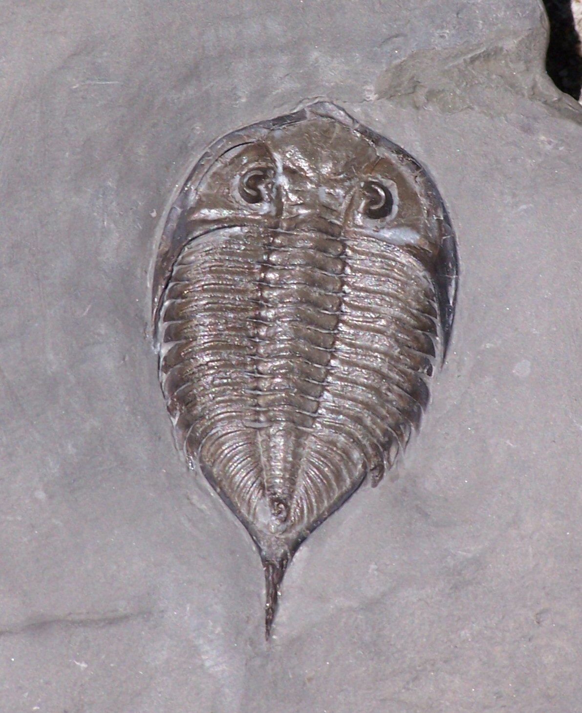 Picture of a fossil trilobite of the species Dalmanites limulurus. From Silurian age strata of New York (USA).